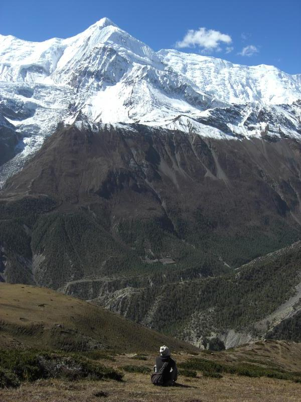 Gangapurna (7455m), Annapurna Himal, Manang Valley, Nepal